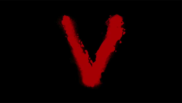 Intertitle from the ABC television program V